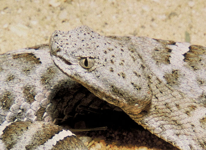 Head of a Mexican Ridged Nosed Rattlesnake (Crotalus willardi) with one of two distinctive cranial pits (thermoreceptors common to all pit vipers) visible between the nostril and eye.